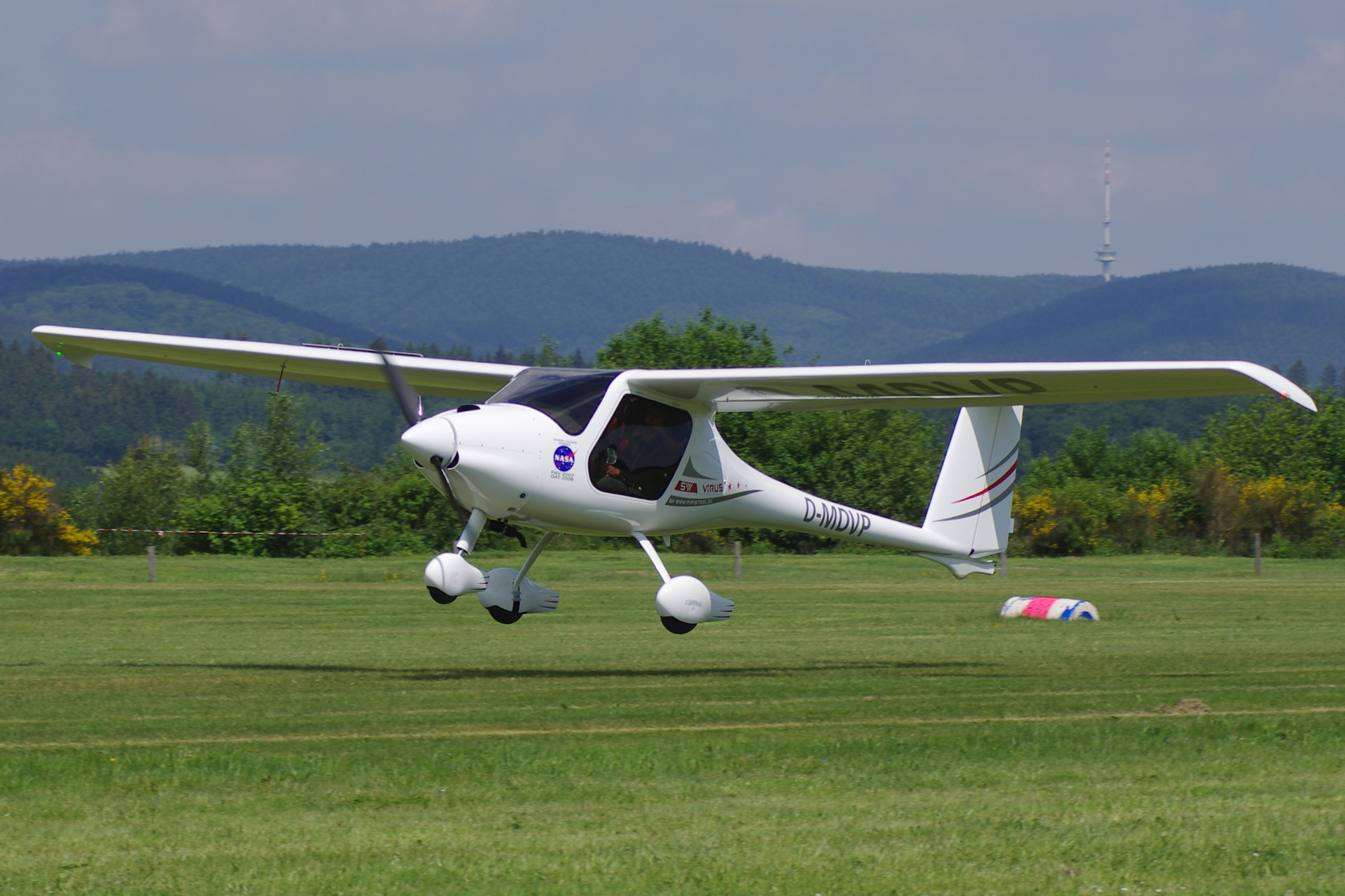 A Pipistrel Virus SW landing at Schmallenberg-Rennefeld (EDKR) during the Bergfliegen 2012